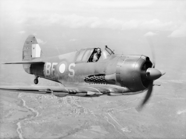 AWM caption : Mareeba, Qld. 1944-03-15. "White Feller's Boomerang" in flight. An Australian-built CAC Boomerang fighter aircraft coded BF-S (serial no. A46-126) nicknamed "Sinbad II" of No. 5 (Tactical Reconnaissance) Squadron RAAF, piloted by 402769 Flight Lieutenant A. W. B. Clare of Newcastle, NSW.